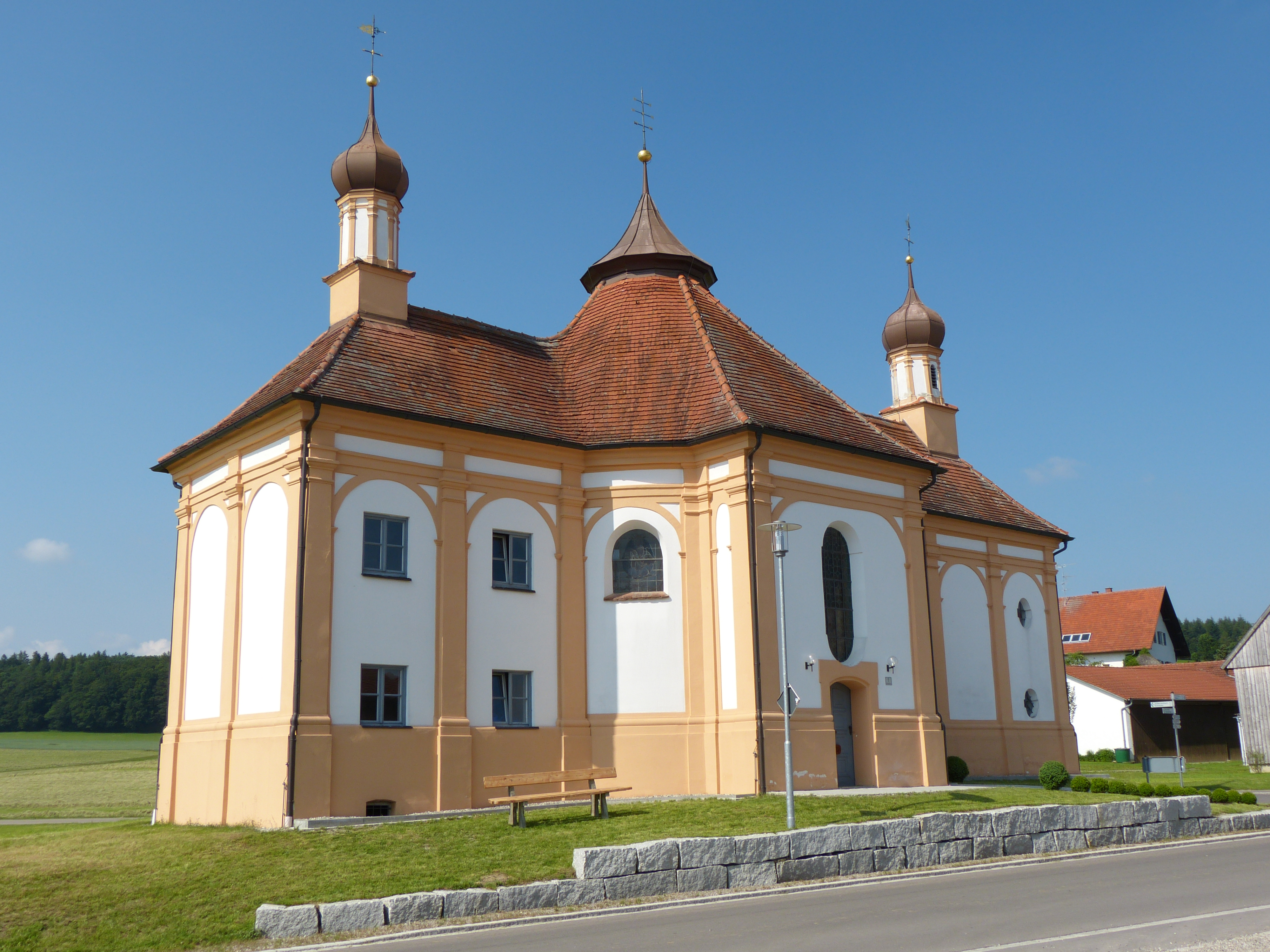 St. Antonius of Padua in Berg near Markt Wald, Landkreis Unterallgäu, Bavaria